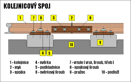 Rail joint